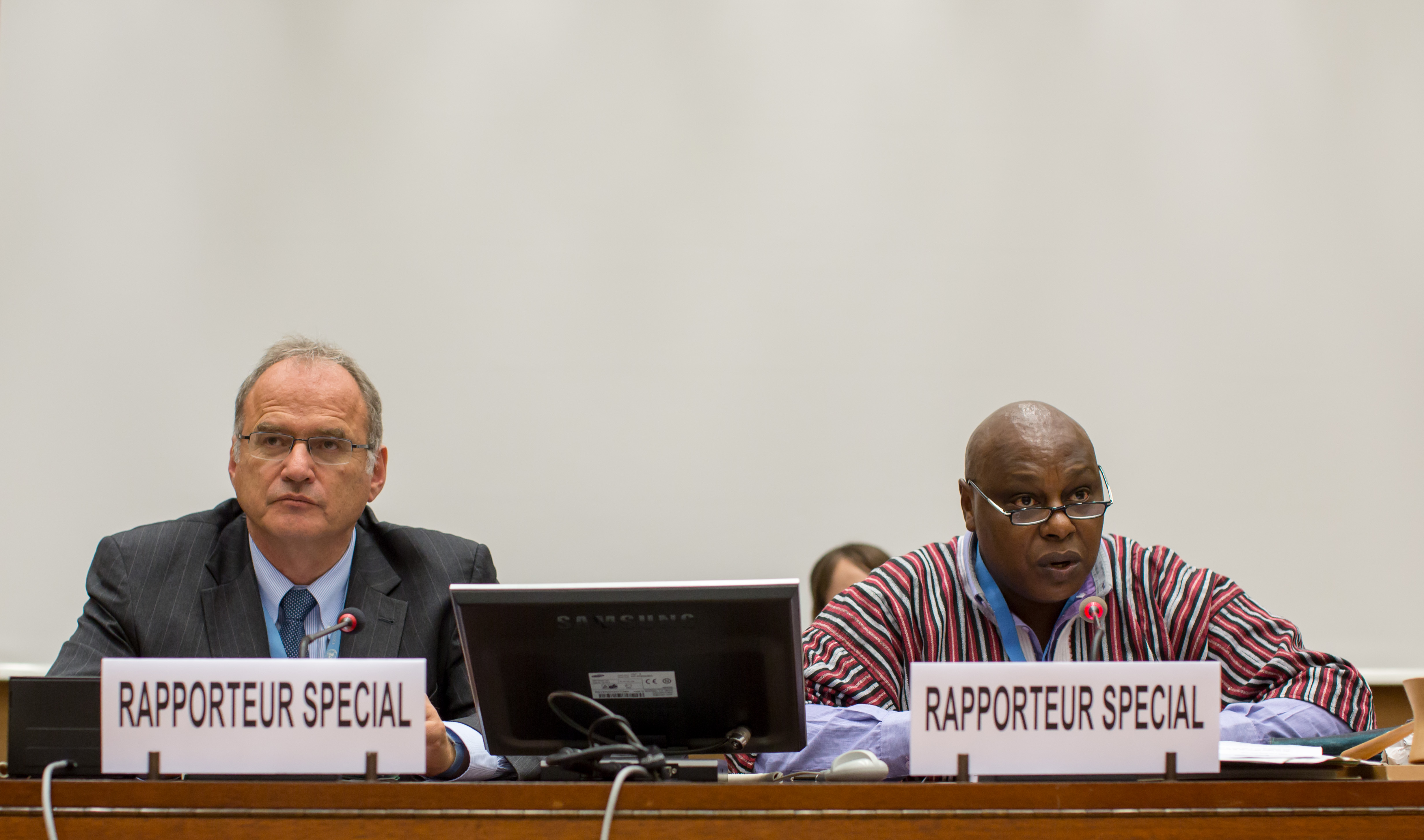 Christof Heyns and Maina Kiai, United Nations Special Rapporteurs, open the Member States briefing on the project to develop recommendations for managing peaceful protests (United Nations Human Rights Council, Geneva). The sign in French indicates Rapporteur spécial (Special Rapporteur).